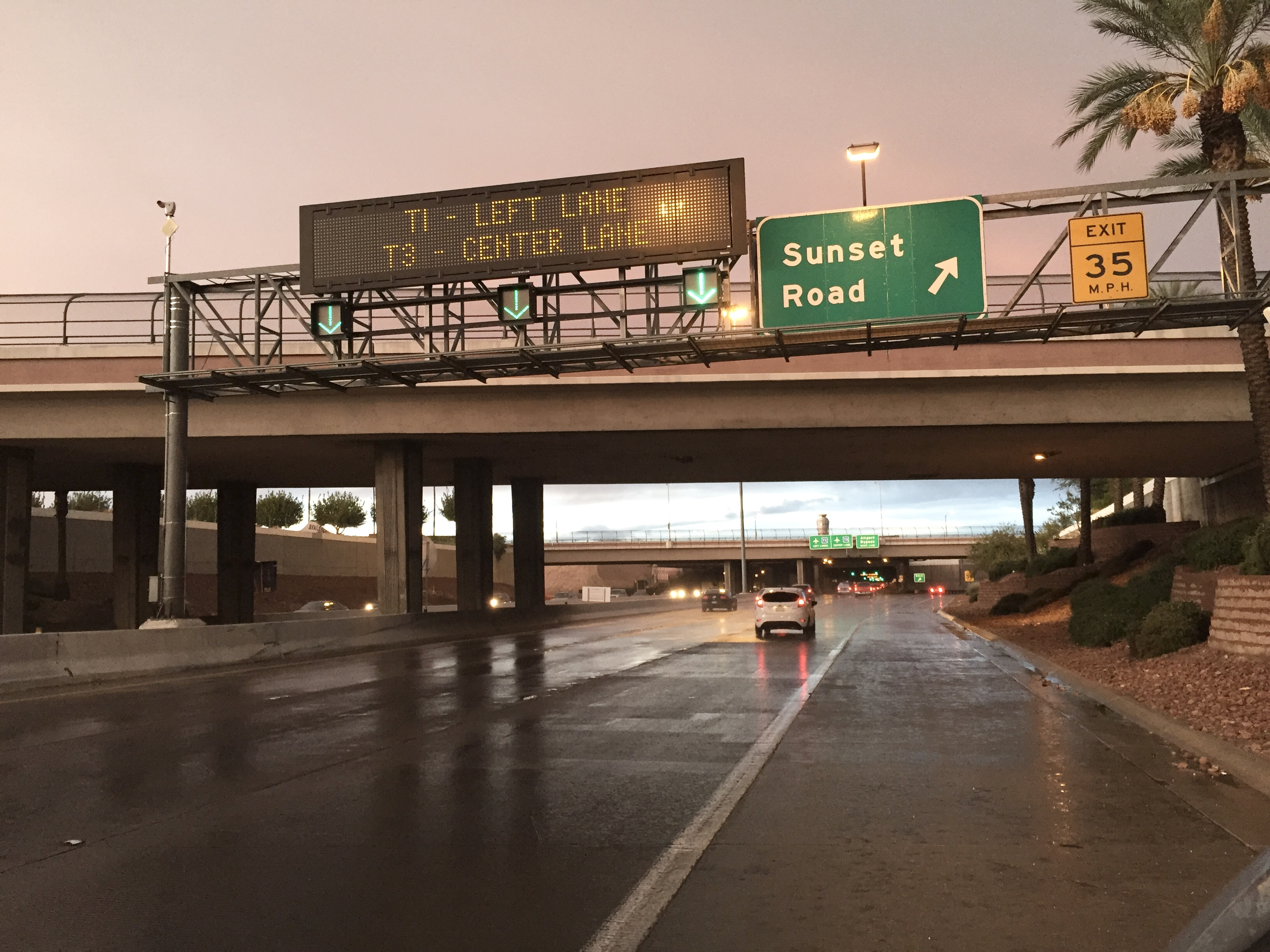 View north along the McCarran Airport Connector (Nevada State Route 171) at Sunset Road (Nevada State Route 562) in Paradise, Nevada